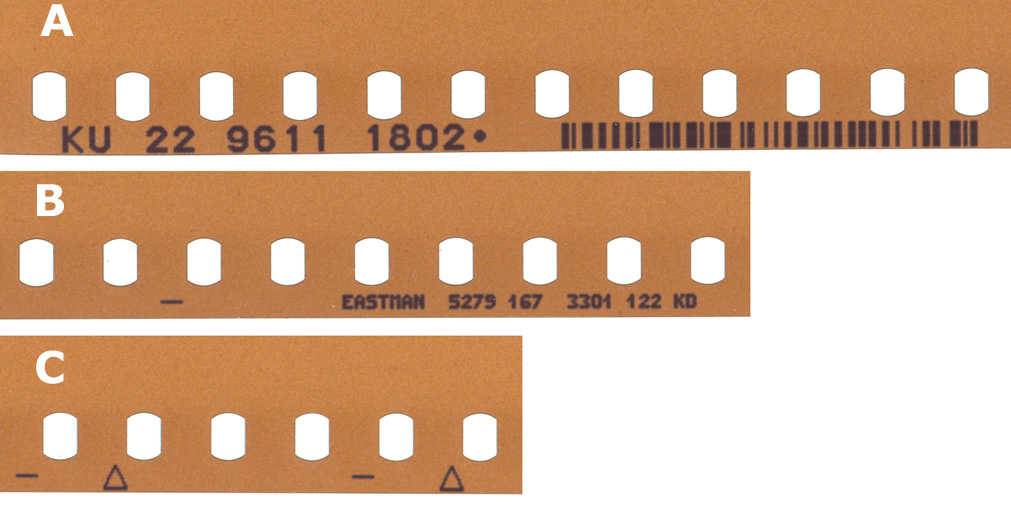 Scanned images of Keykode and edge numbers from Eastman Kodak color negative film.